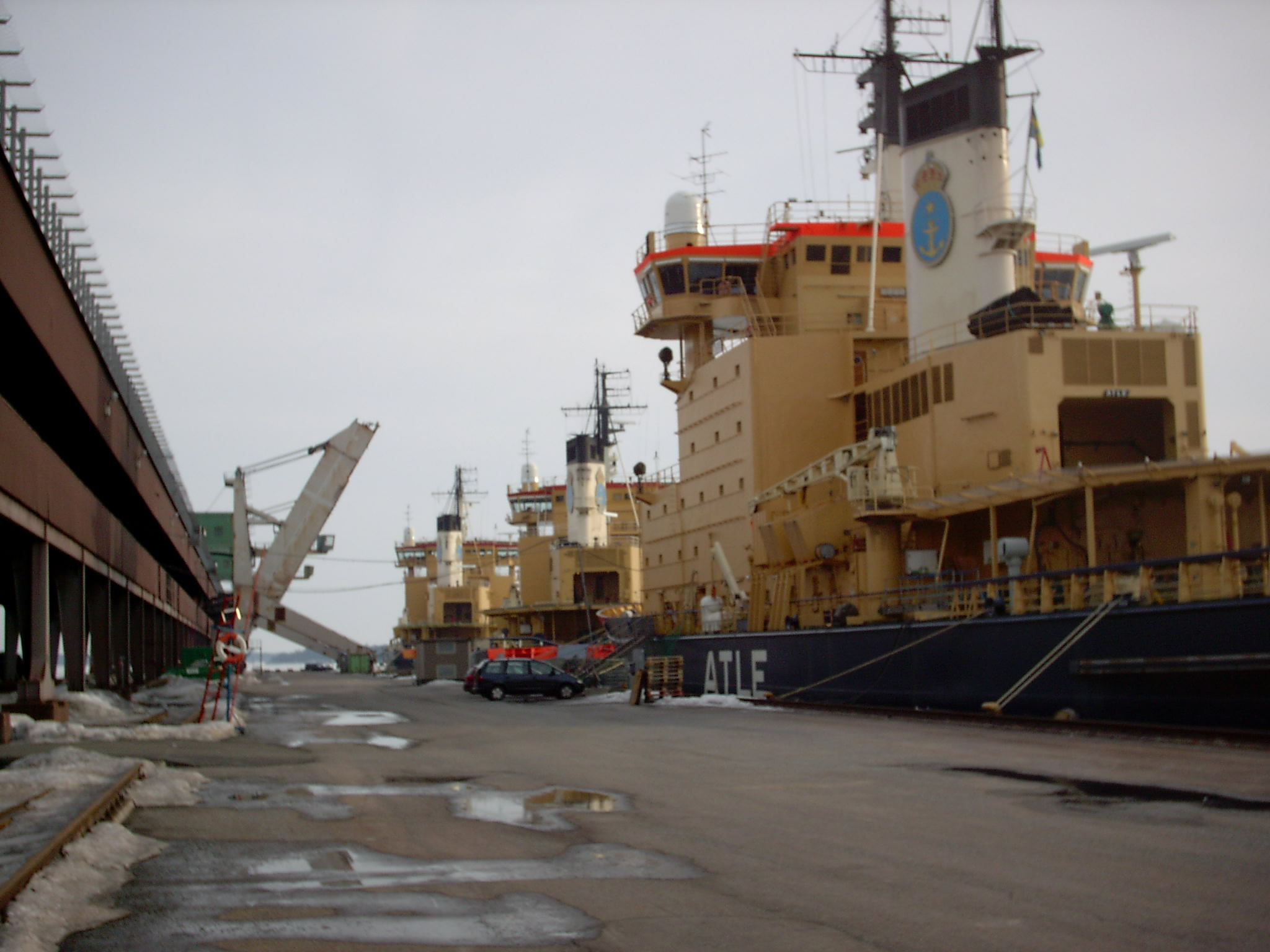 The Atle-class in Luleå, Sweden.